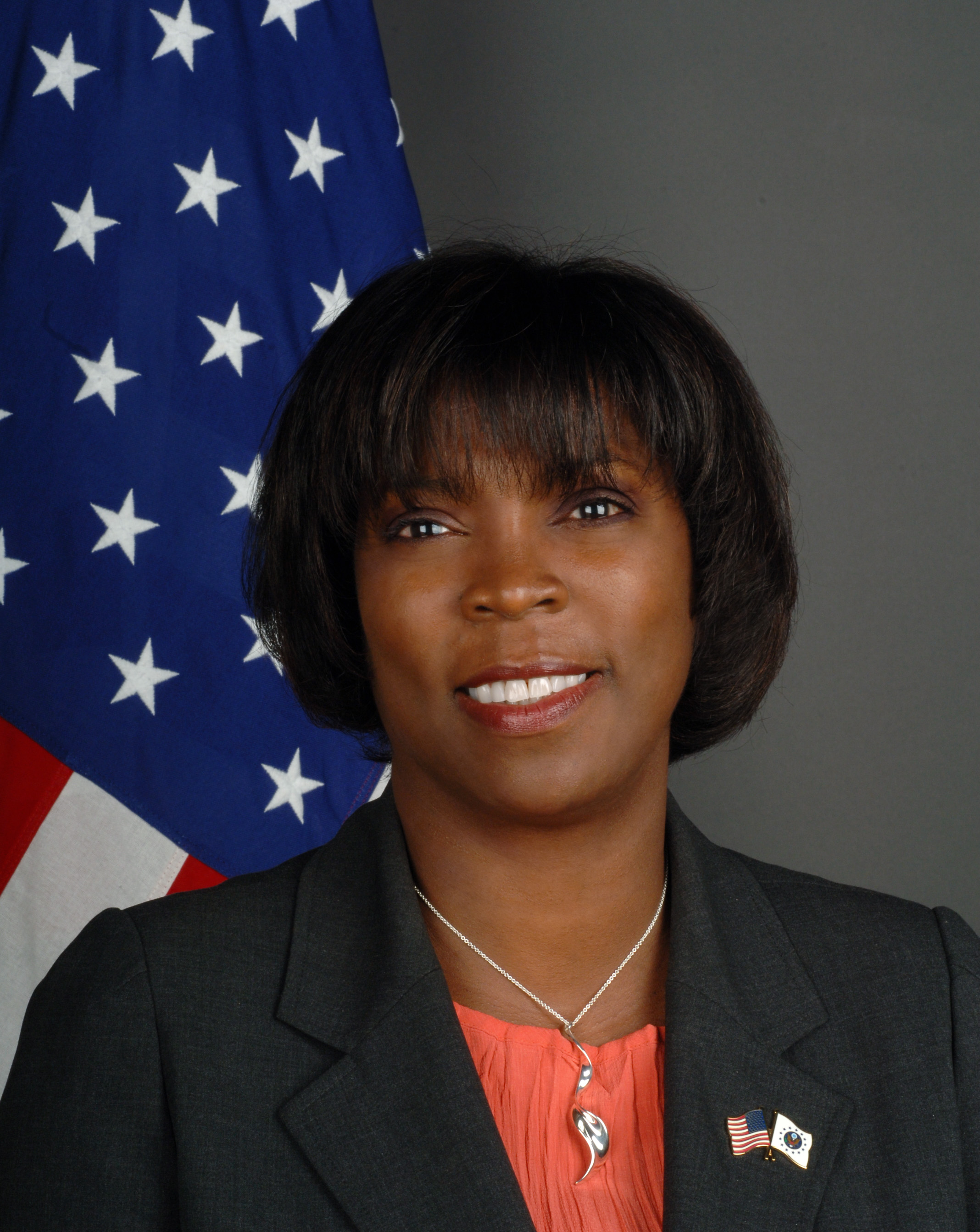 Etharin Cousin